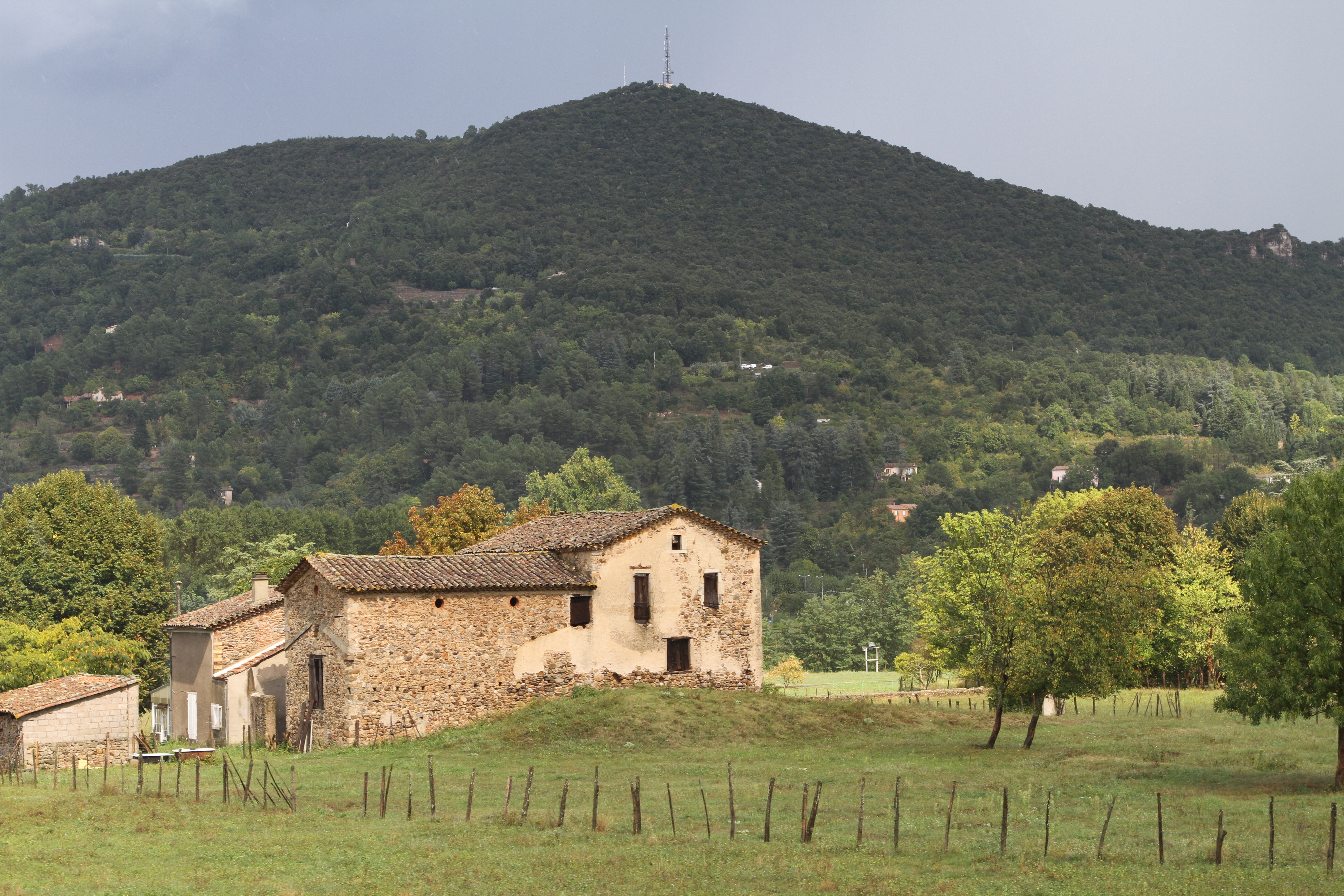 Photo taken on the line of the steam train of Cevennes, between Anduze and Saint-Jean-du-Gard (Gard, France).